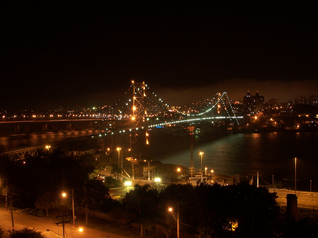 Hercílio Luz Bridge at night, Florianópolis, Brazil.